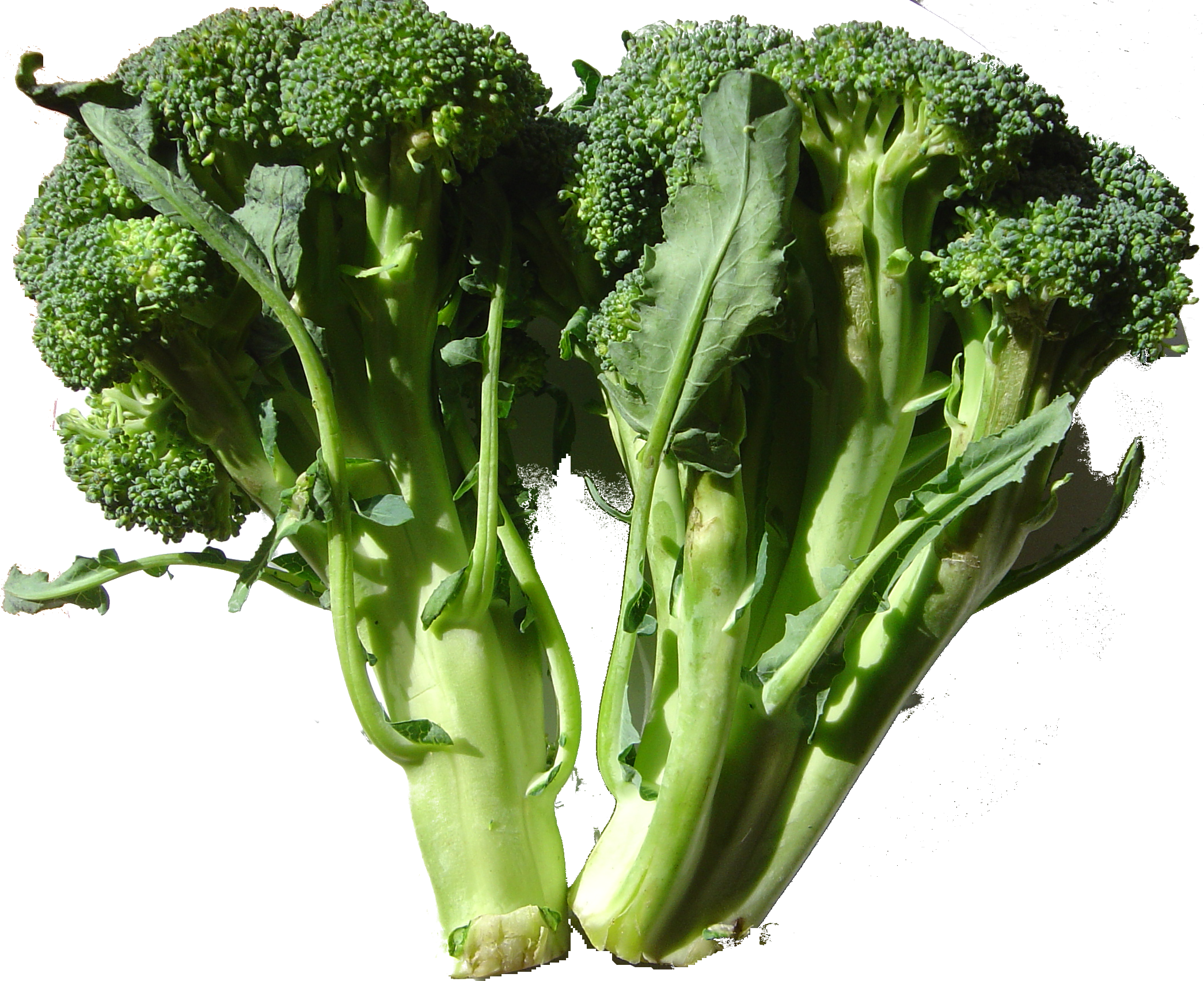 two Broccoli heads